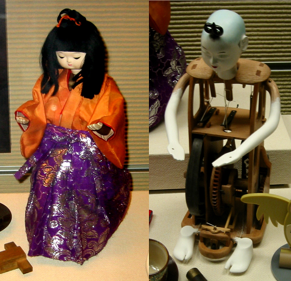 Tea automat and mechanism. 19th century Japan. Tokyo National Science Museum.